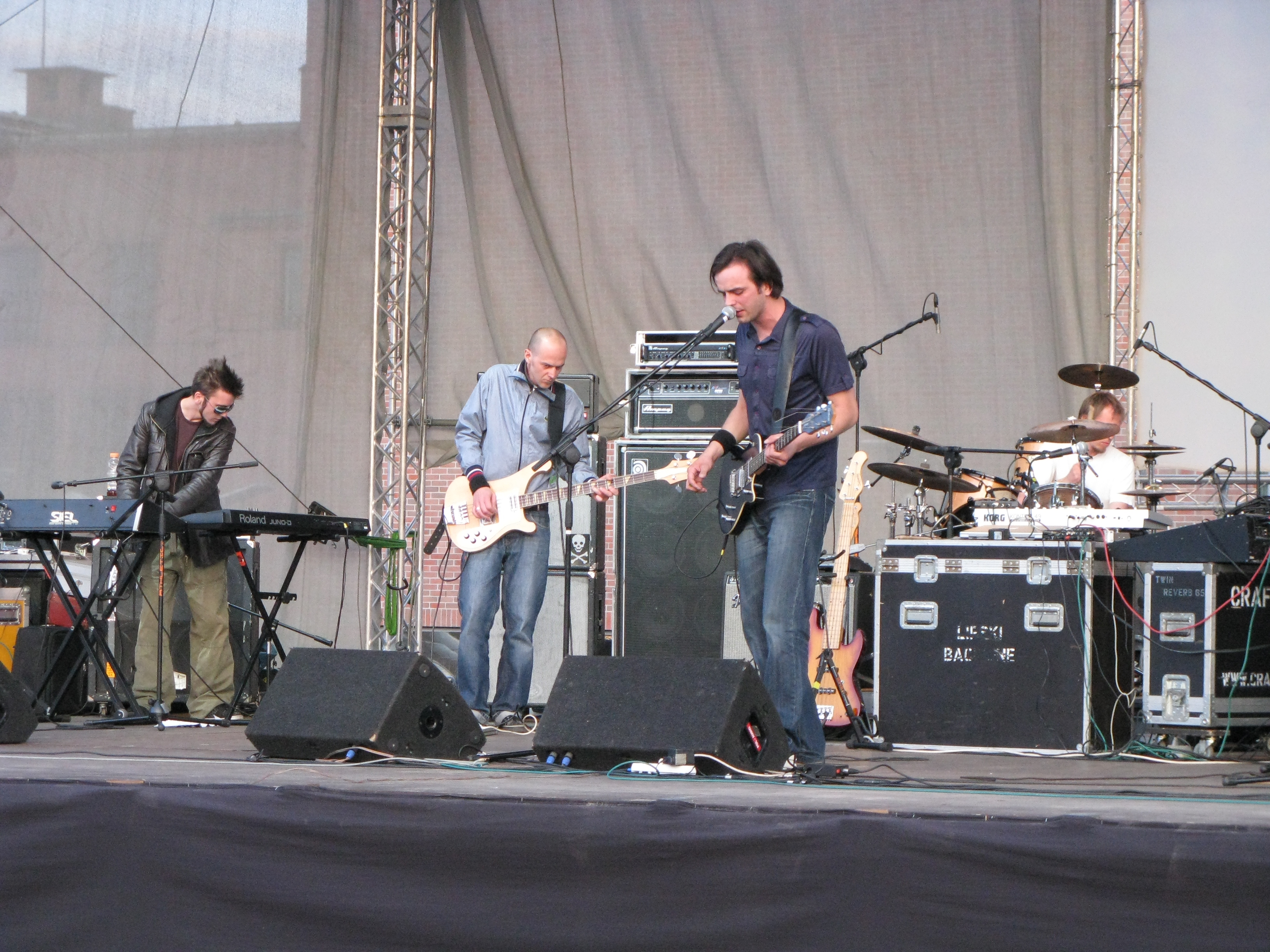 Polish musical groups 3moonboys concert in Toruń